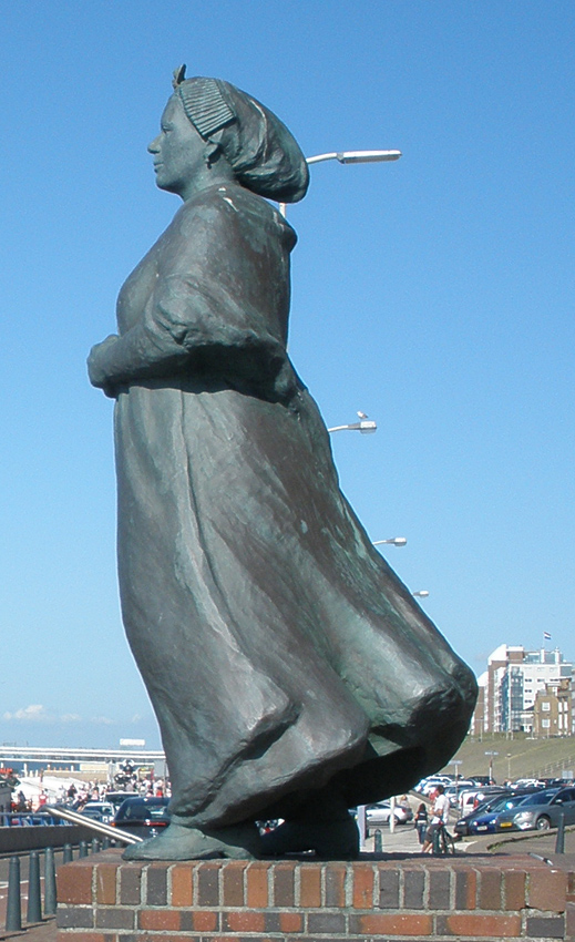 The boulevard and beach at Scheveningen, the Netherlands, with a statue of a local fisherman's wife gazing out to sea (aka Vissersmonument). Scheveningen pier is visible in the distance.